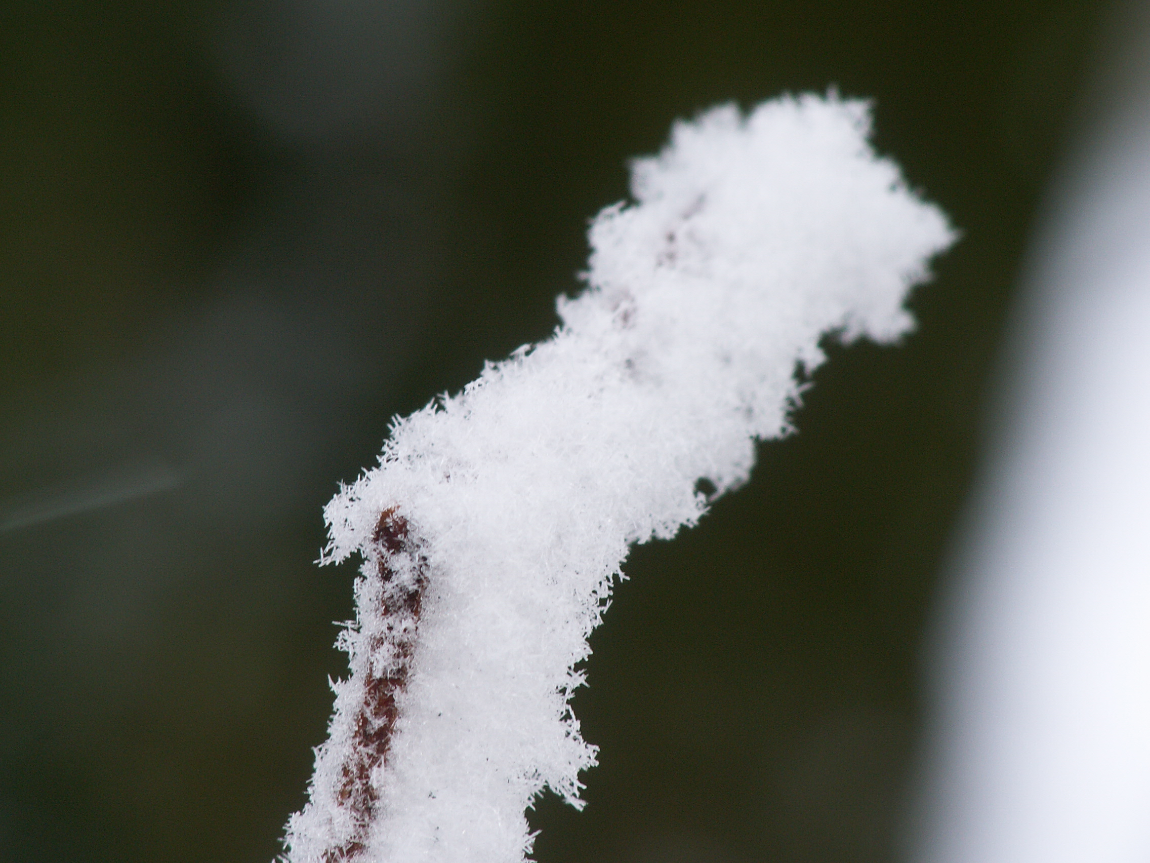 This picture was taken almost the same time as another hoar frost picture, by User:Rasbak: Image:Rijp op takjes.jpg. My picture was taken in the city near walls and buildings and apparently this has caused more turbulence as the needles are shorter and also the backside of the branches have some frozen mist attached to them. In the other picture wind conditions were apparently more stable and the laminar flow of the wind has prevented almost all undercooled droplets to reach the backside of the branches. Also the ice needles on my picture are shorter and in an irregular pattern, indicating some microturbulence.